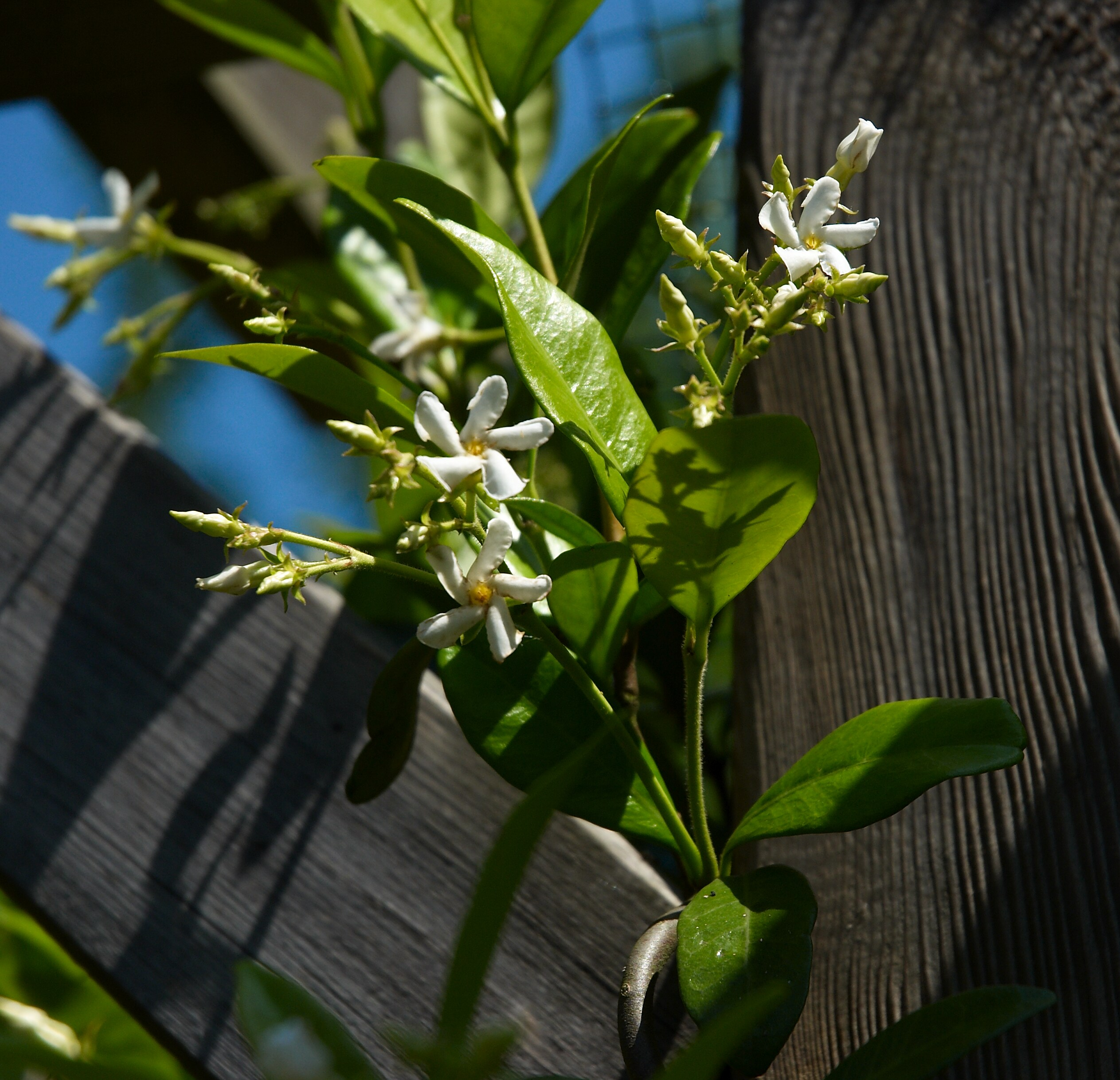 Star-jasmine or Confederate-jasmine. The label attached to this plant was Rhynchospermum jasminoides